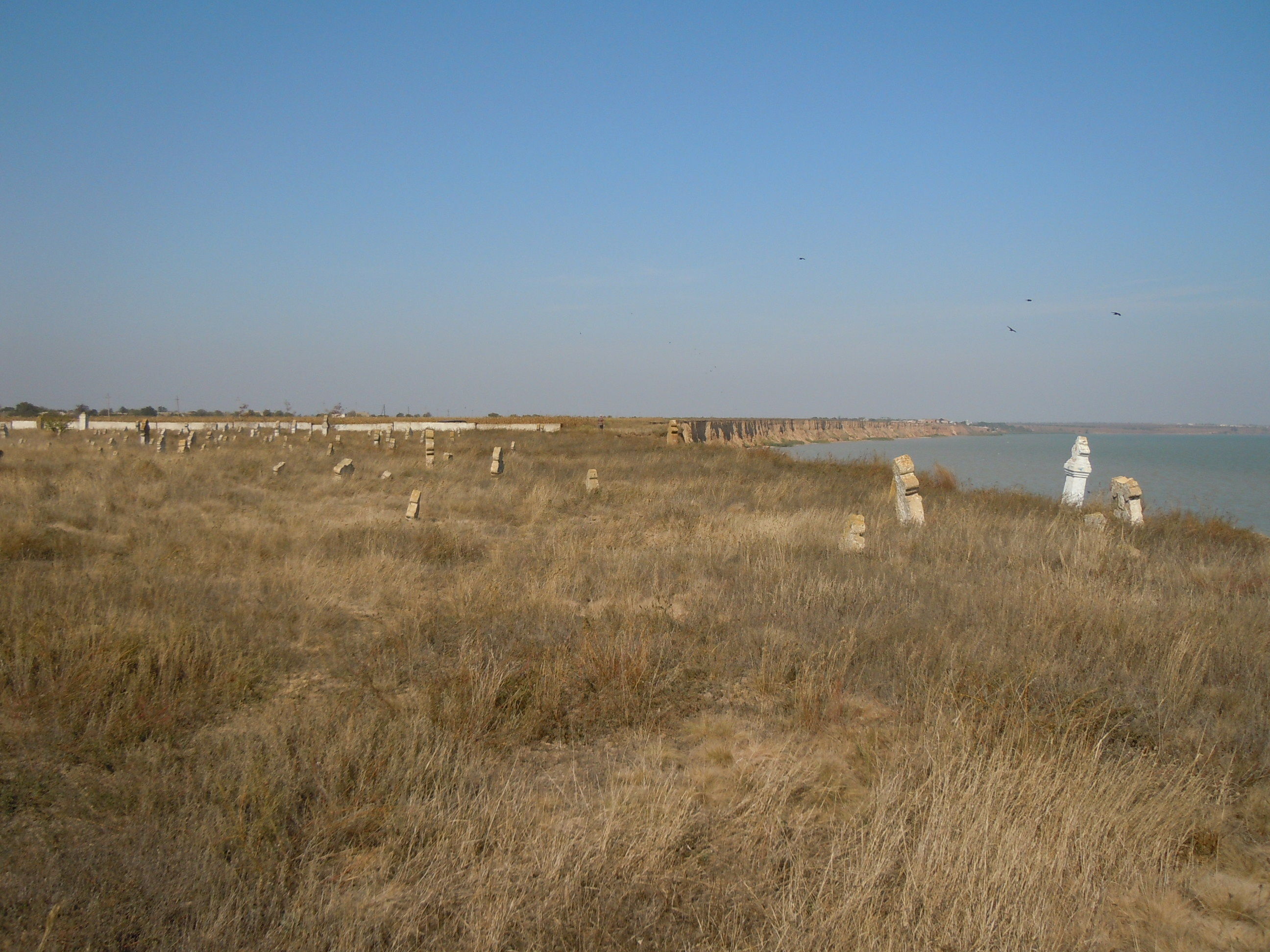 Old Cossacks Cemetery in the Village of Hlyboke, Odessa Oblast, Ukraine